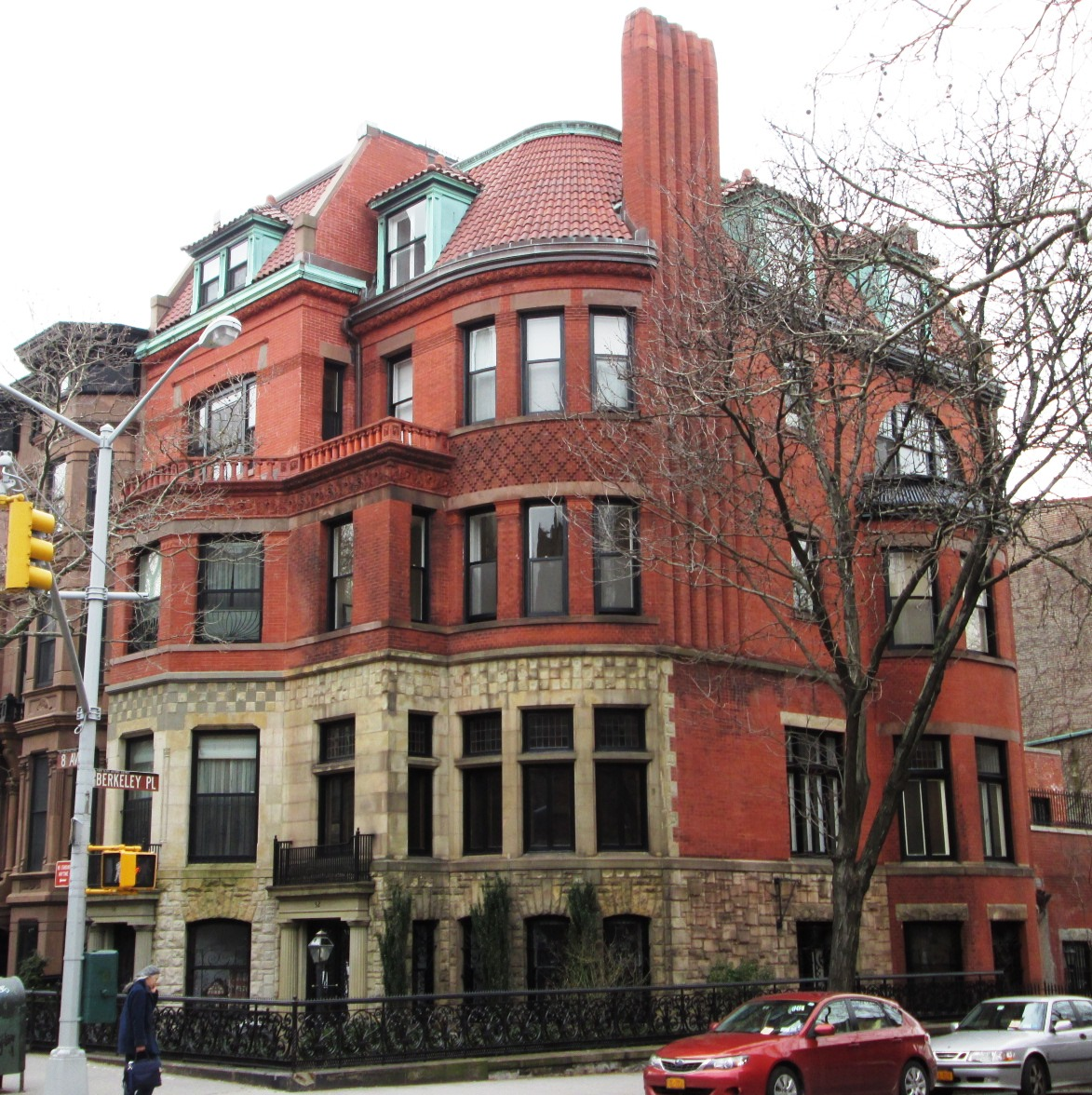 52-54 8th Avenue on the corner of Berkeley Place in the Park Slope neighborhood of Brooklyn, New York City was built in 1886 as a residence and was designed by F. Carlos Merry in the Romanesque Revival style with some Queen Anne style elements. In 1914, after a fire, it was divided into two residences at #52 and #54. It is located within the Park Slope Historic District. (Sources: "Park Slope Historic District Designation Report" and NYC GIS map)